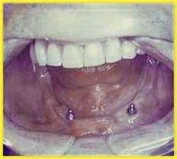 2 implants for a lower cover denture